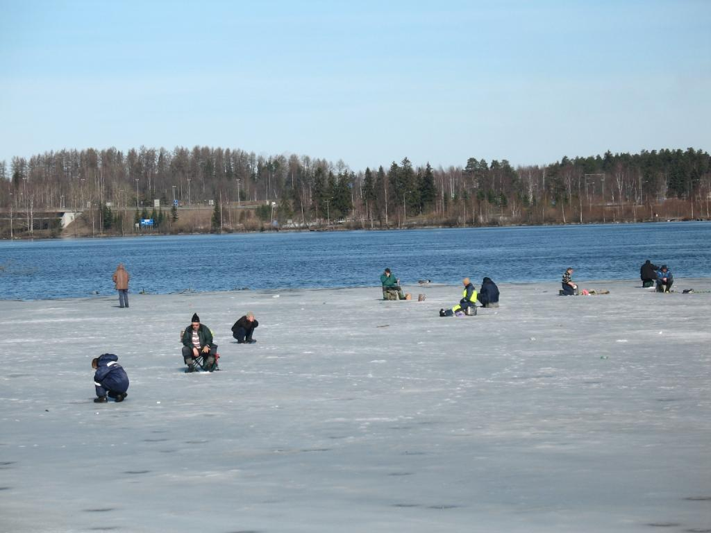 Imatra, Vuoksi, spring fishing